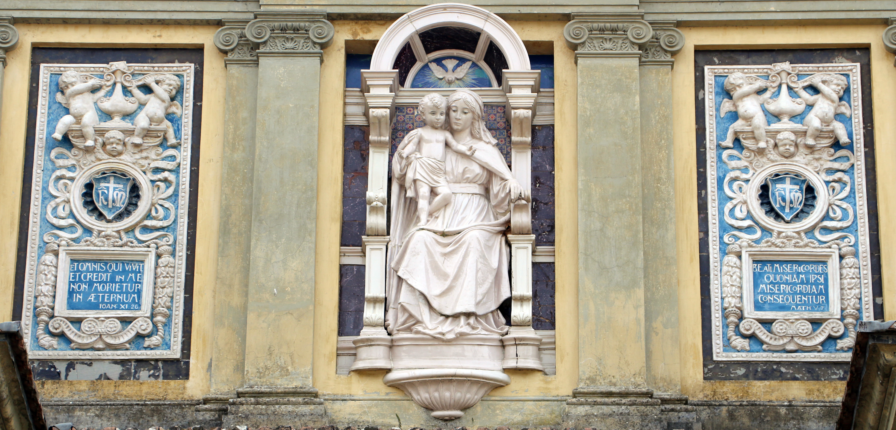 Cimitero Monumentale della Misericordia (Antella)